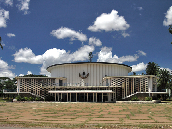 Provincial parliament building of the Katanga Province, Demoocratic Republic of the Congo, 2005 (originally a theatre building)